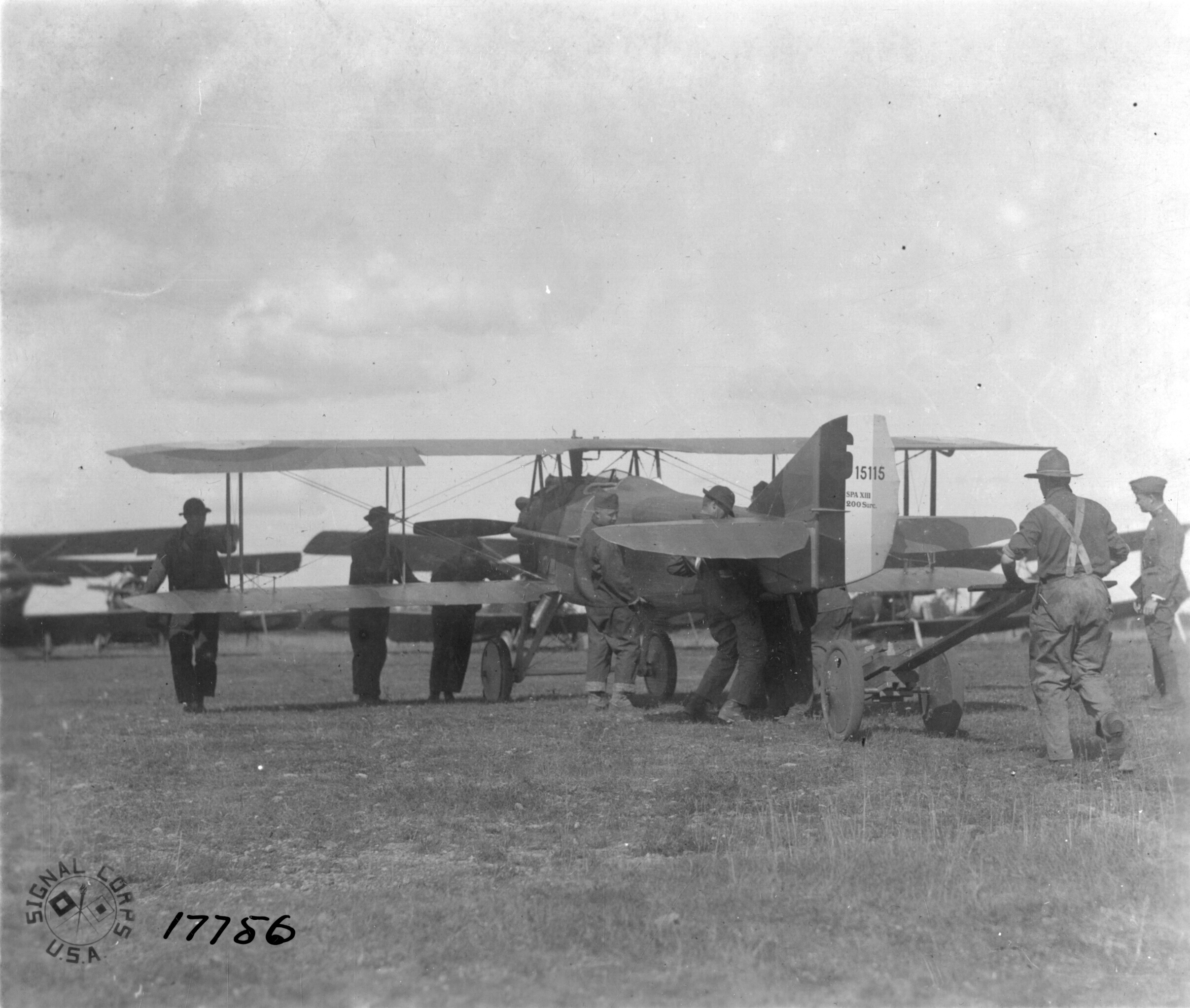 American Aviation Section Preparing For Flight Preparing Spad S.XIII for flight, Colombey-les-Belles, 26 July 1918, Aviation Section, First Air Depot.